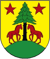 Coat of arms of Le Bémont, Canton of Jura, Switzerland